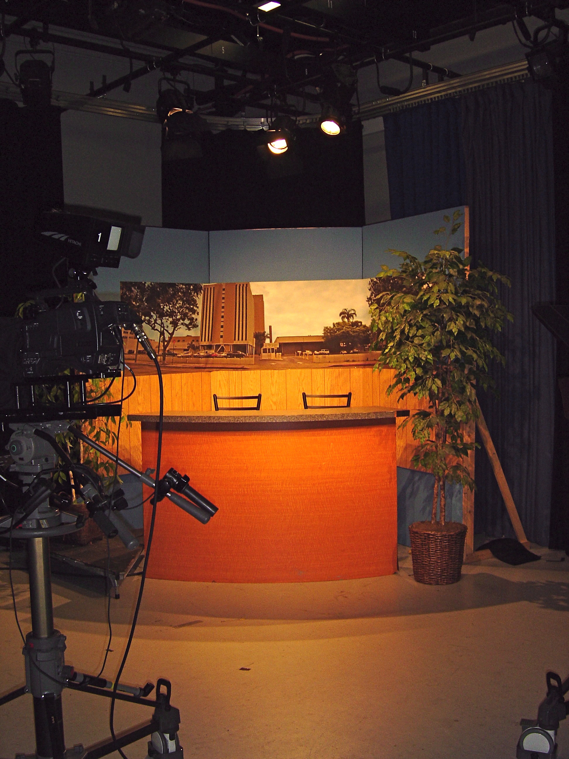 The Art Attack Live set in one of the OCHSA Technology Building's studios, as seen during most of its 2004-2005 season